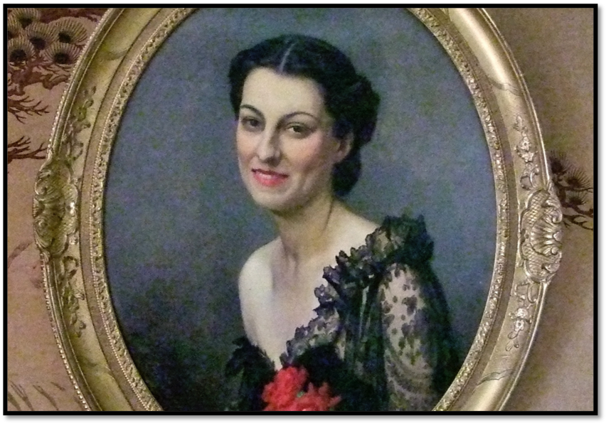 Marquise de Sigalas